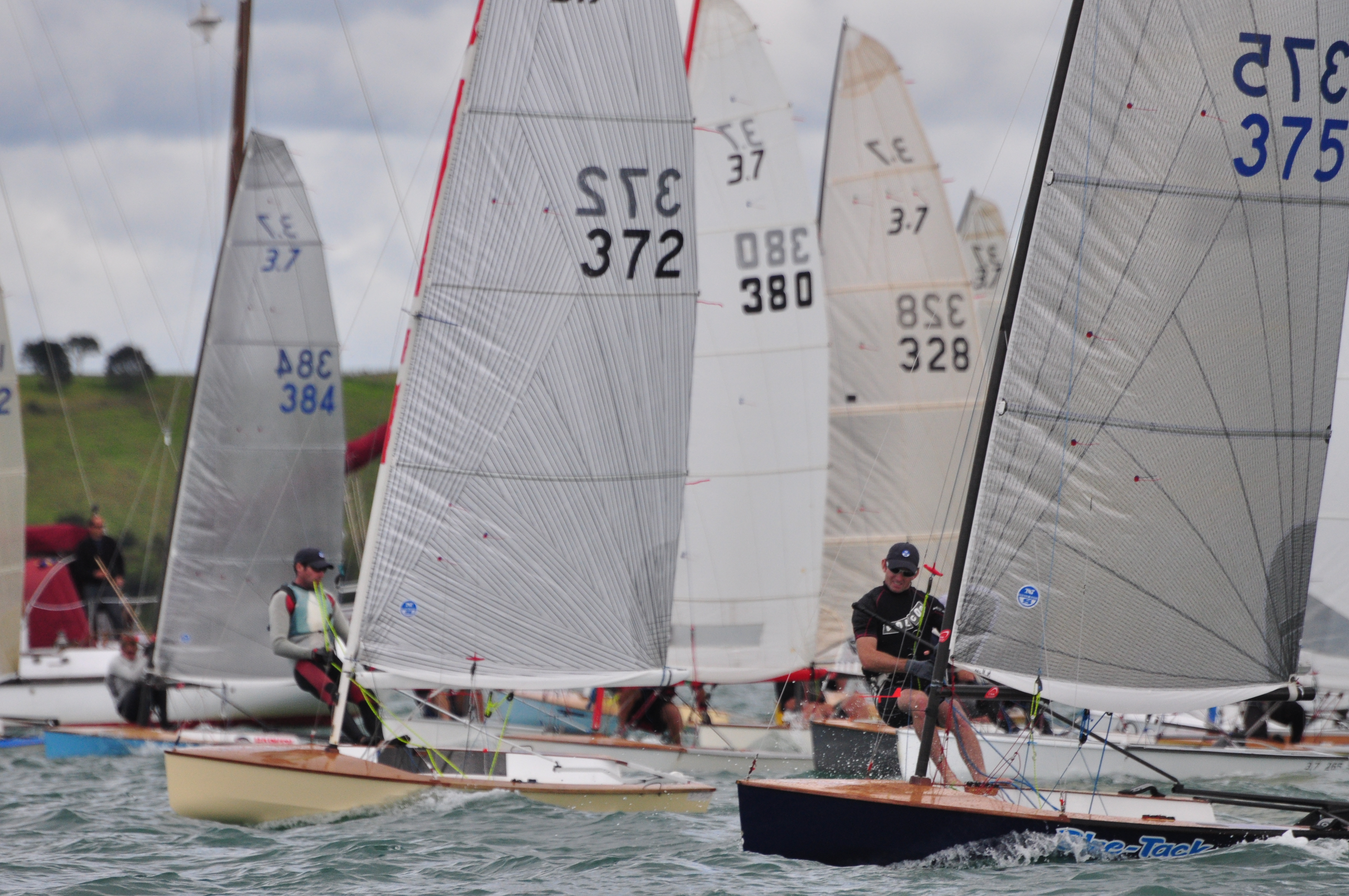 Farr 3.7 Nationals 2009, start line photo